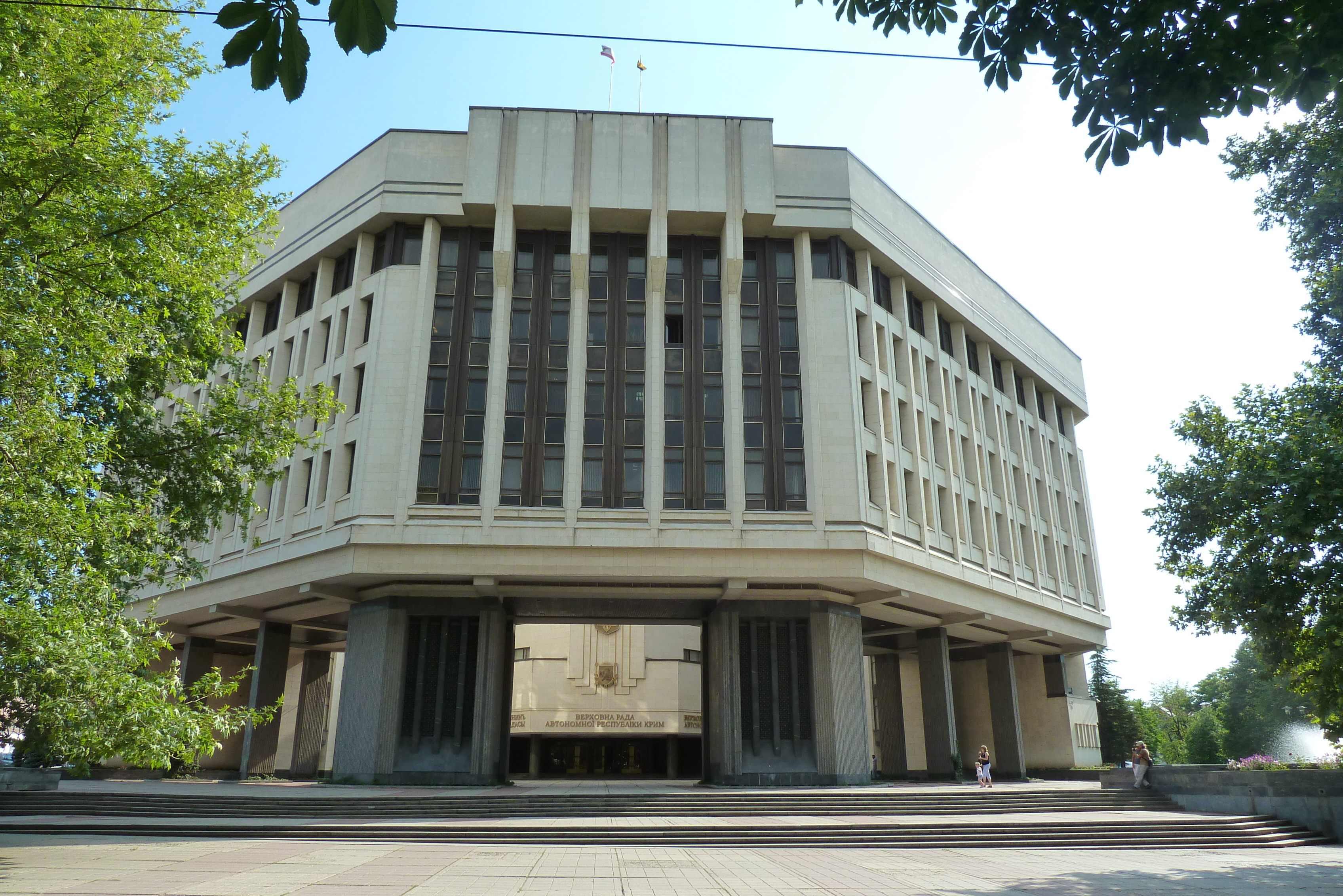 Crimean parliament in Simferopol